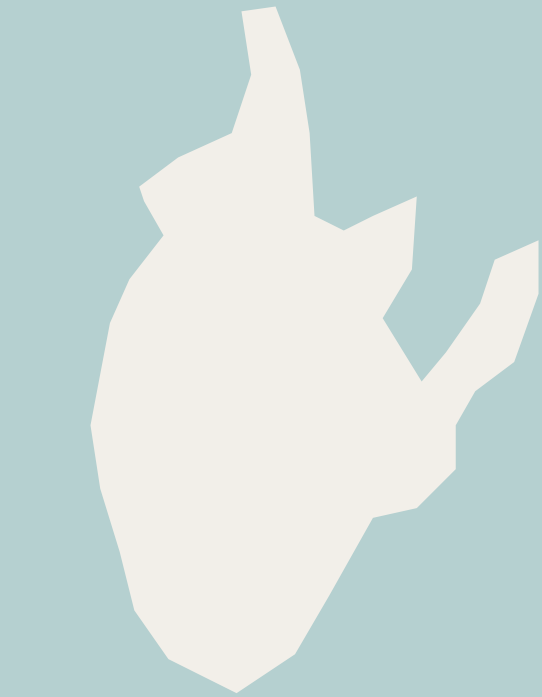 A map over Munkö.